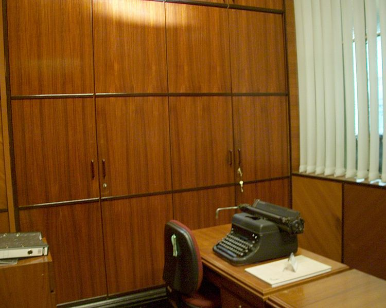 This is an image of a Remington Rand Typewriter in use. The Remington Rand Typewriter is in the anteroom of the Chief Justice's Chambers in the Old Supreme Court Building. The building is located in Singapore.